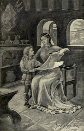 Queen Osburga reads for her son Alfred, who would become Alfred the Great.